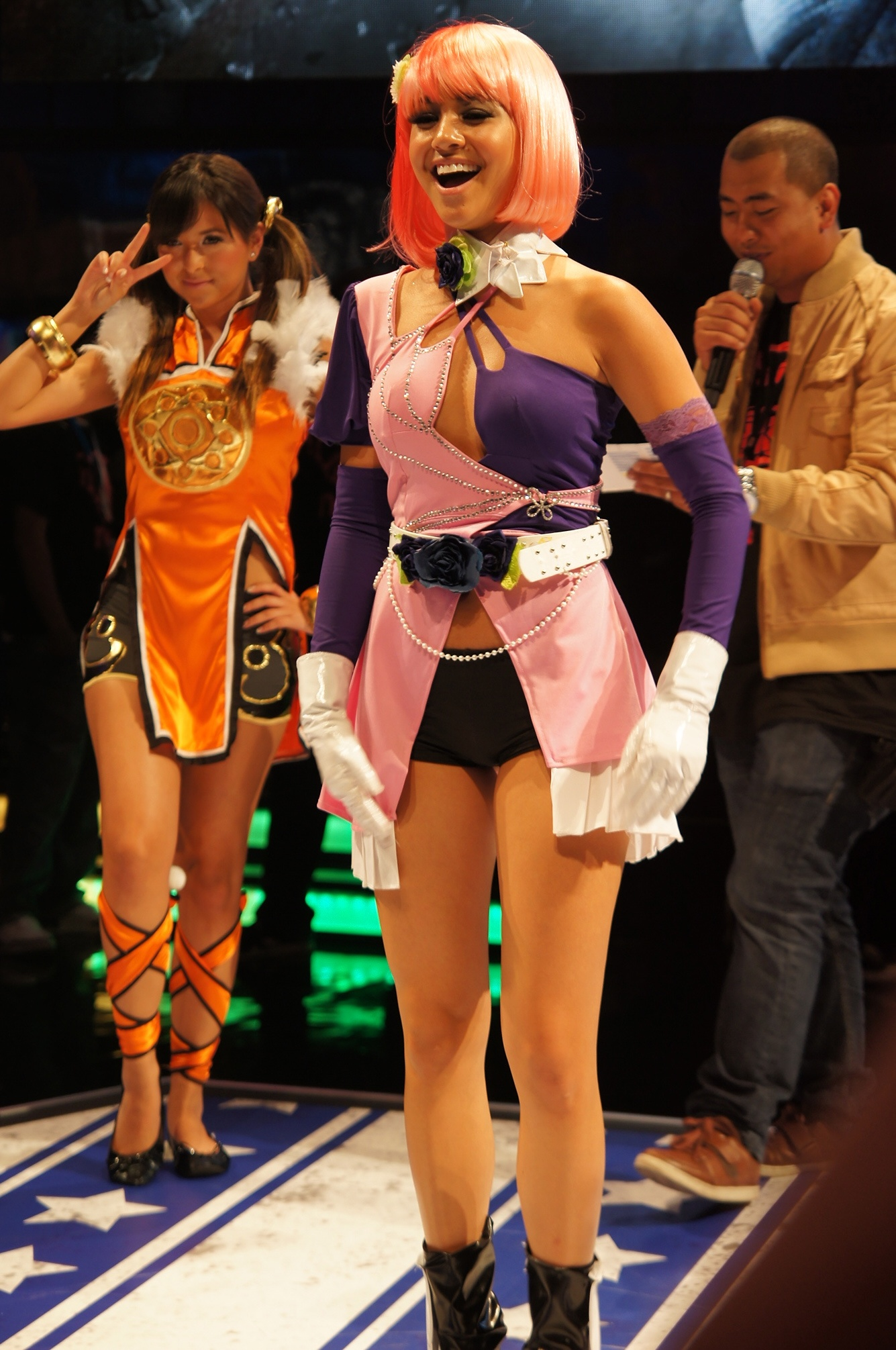 Promotion of the fighting game Tekken Tag Tournament 2 at Electronic Entertainment Expo 2012.